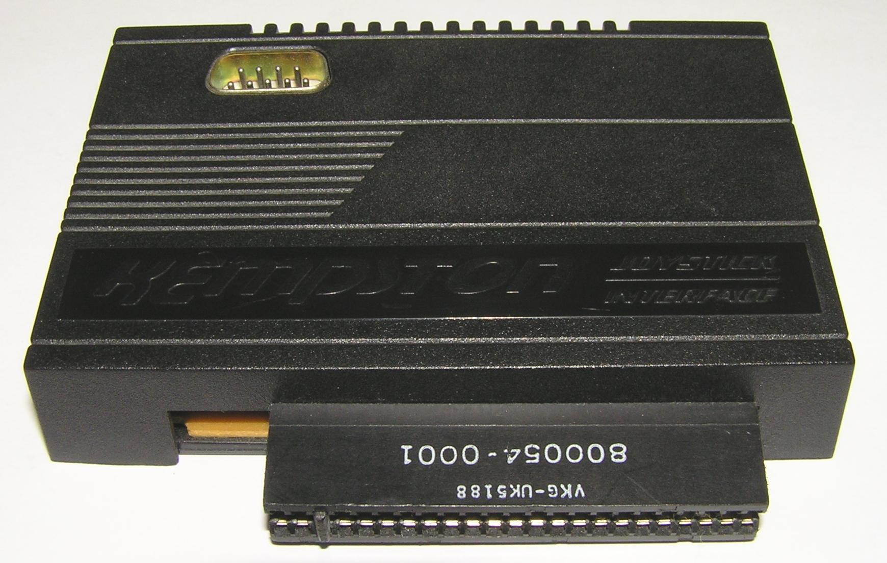 Kempston joystick interface for ZX Spectrum. Photographed by me. Released into the public domain.